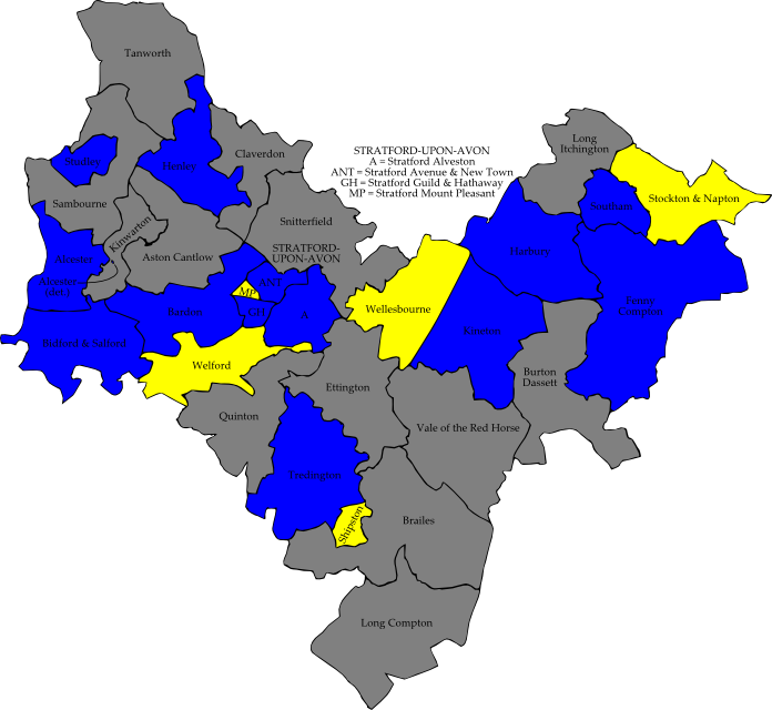 A map of the results of the 2007 Stratford-on-Avon Council election. Colour legend by wards won: Conservative party Liberal Democrats Wards in grey were not contested in 2007.